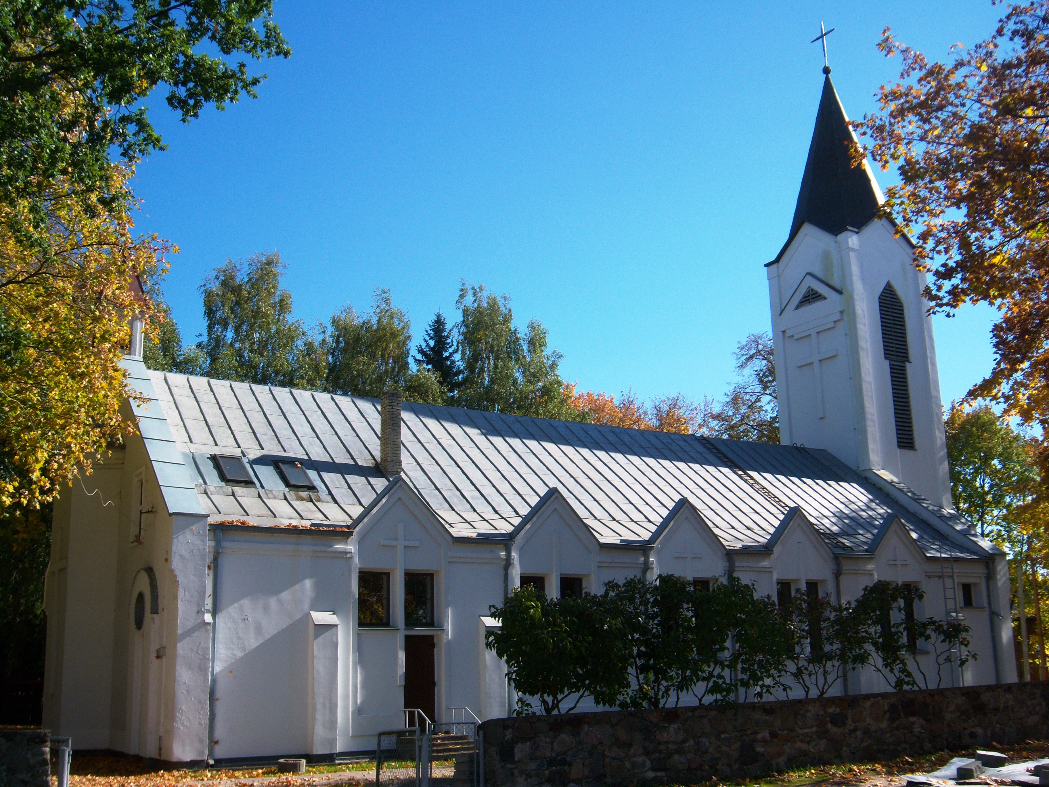 Catholic church in Liudvinavas, Marijampolė District, Lithuania